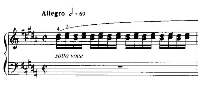 Excerpt form the beginning of the Étude Op. 25 No. 6 by Fryderyk Chopin.